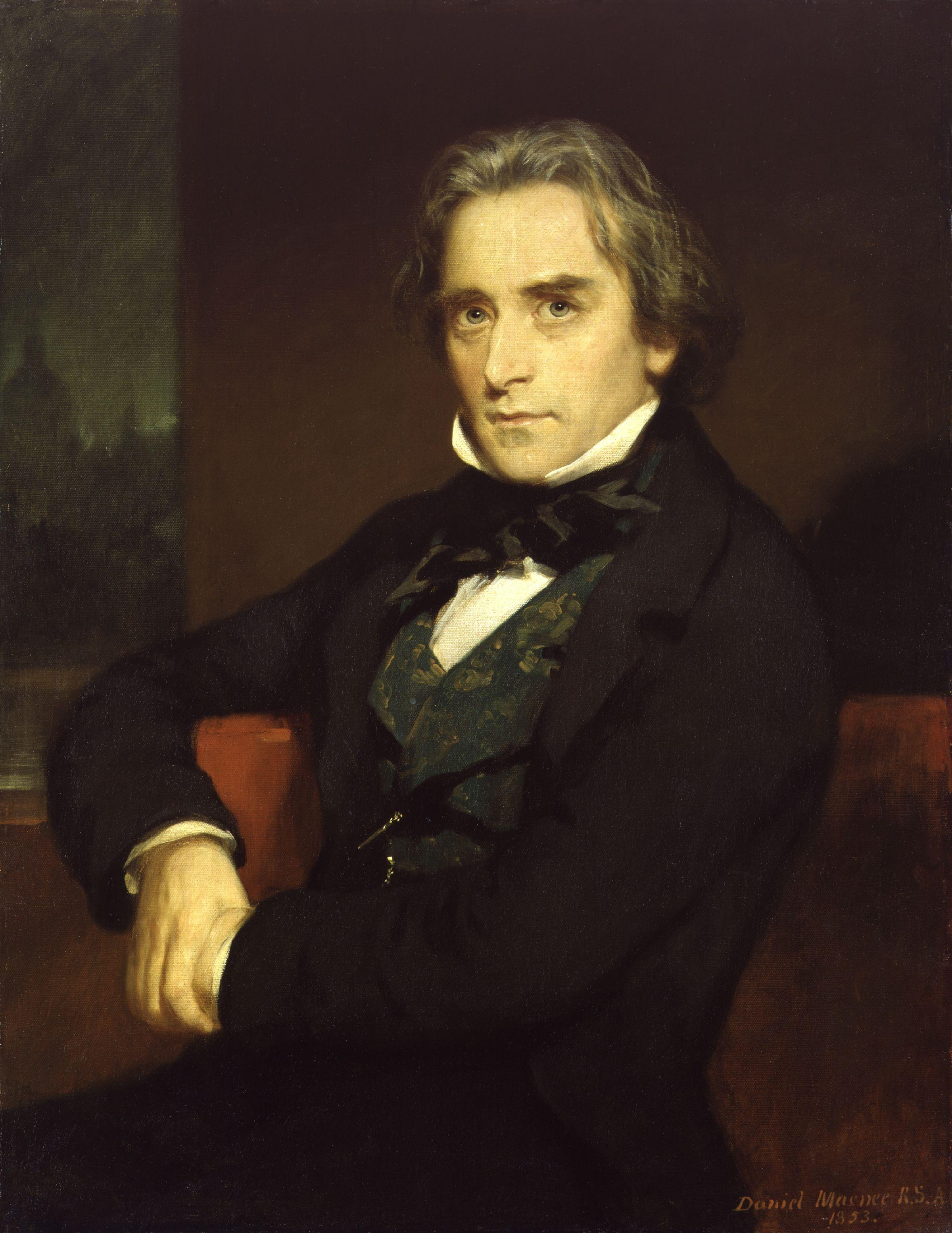 Douglas William Jerrold, by Sir Daniel Macnee (died 1882), given to the National Portrait Gallery, London in 1869. All images in this batch have been confirmed as author died before 1939 according to the official death date listed by the NPG.